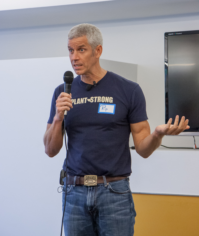 Rip Esselstyn speaks at a potluck and book signing in Oakland, California on June 11, 2013.